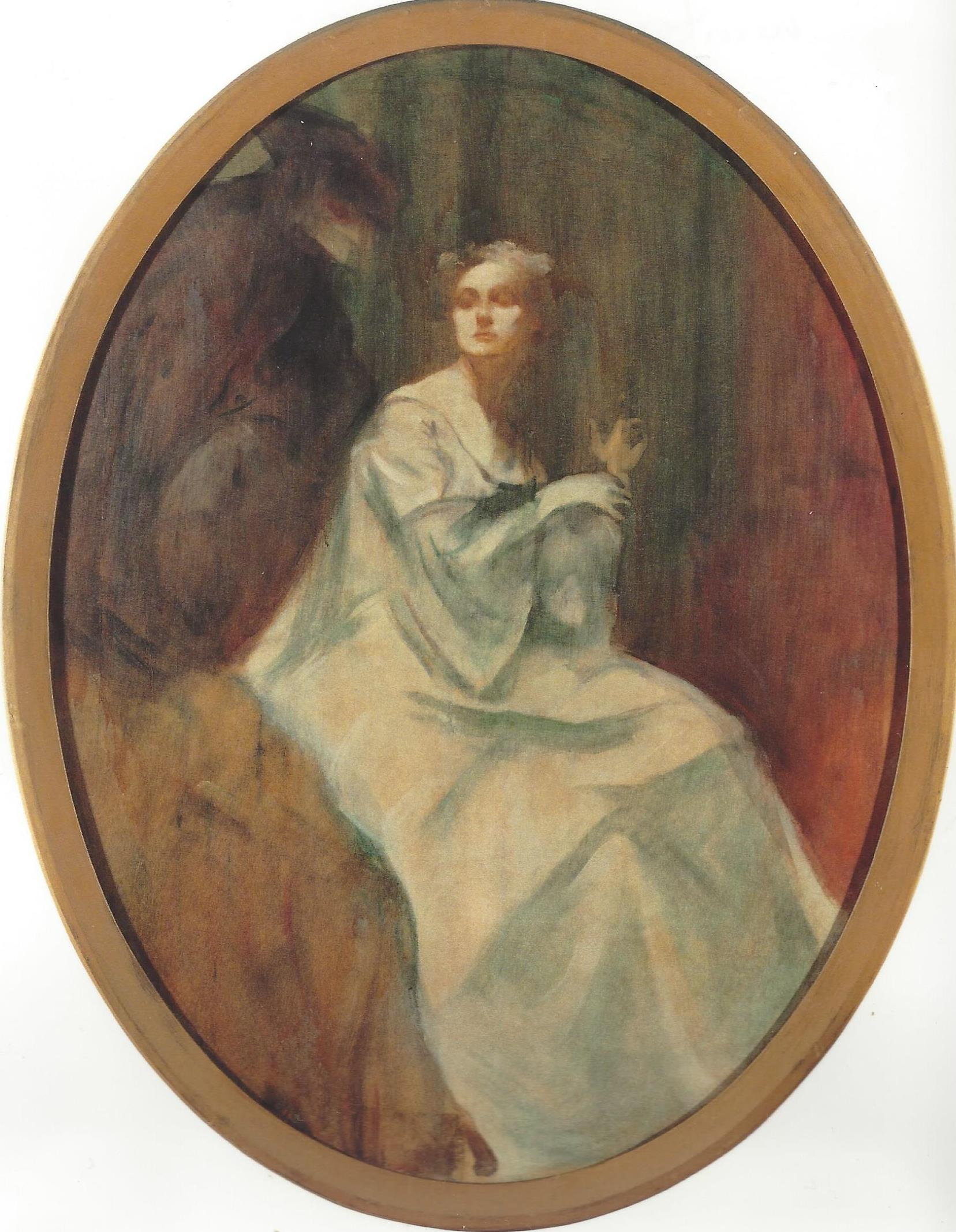 Painting by Umberto Martina; Winter 111x156 cm, commissioned circa 1919 by Giulio Ciriani.